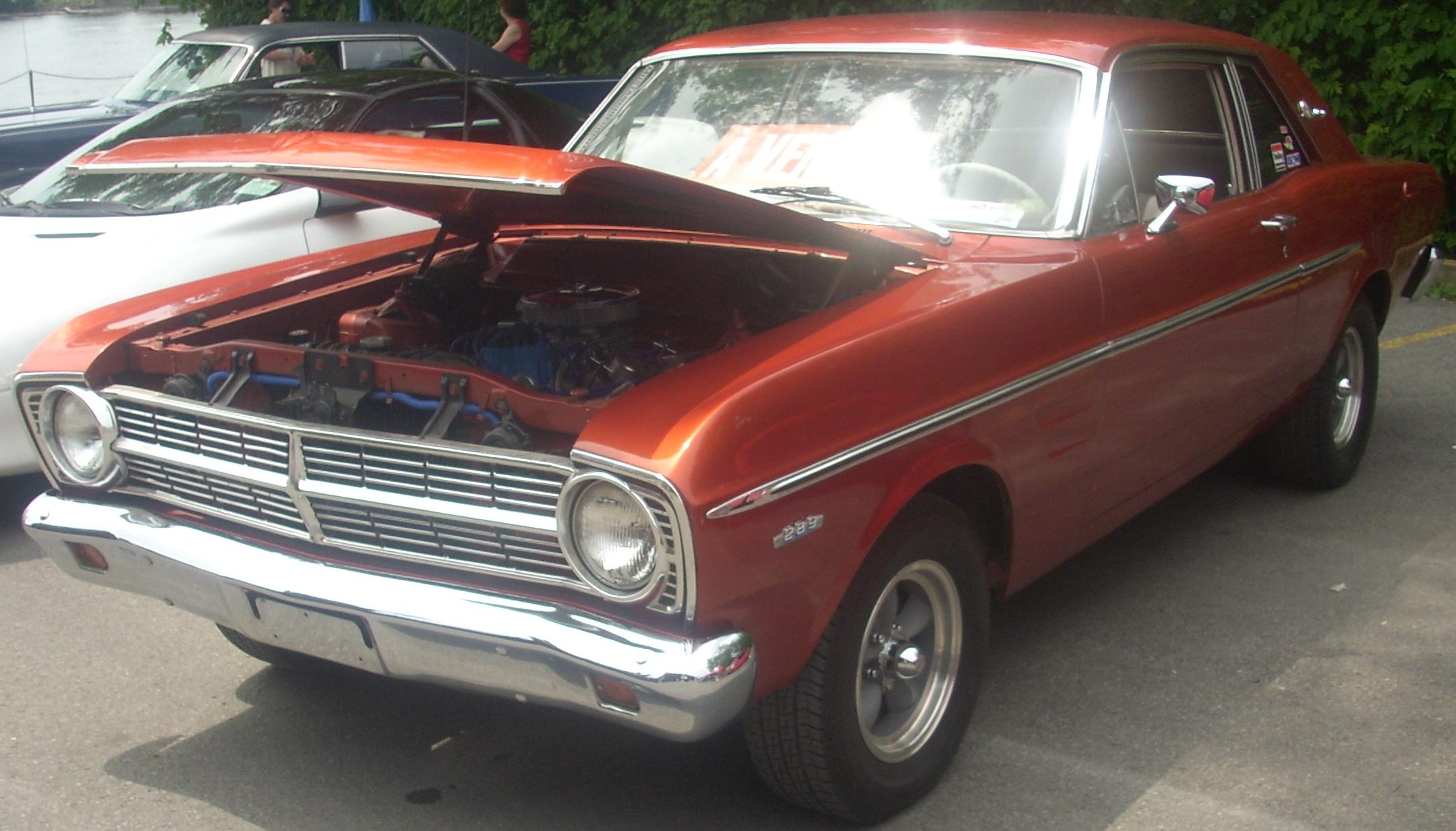 1967 Ford Falcon photographed in Ste. Anne De Bellevue, Quebec, Canada at Cruisin' At The Boardwalk 2010.